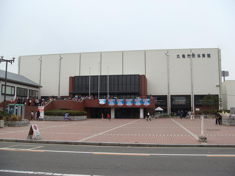 Marugame_Gymnasium